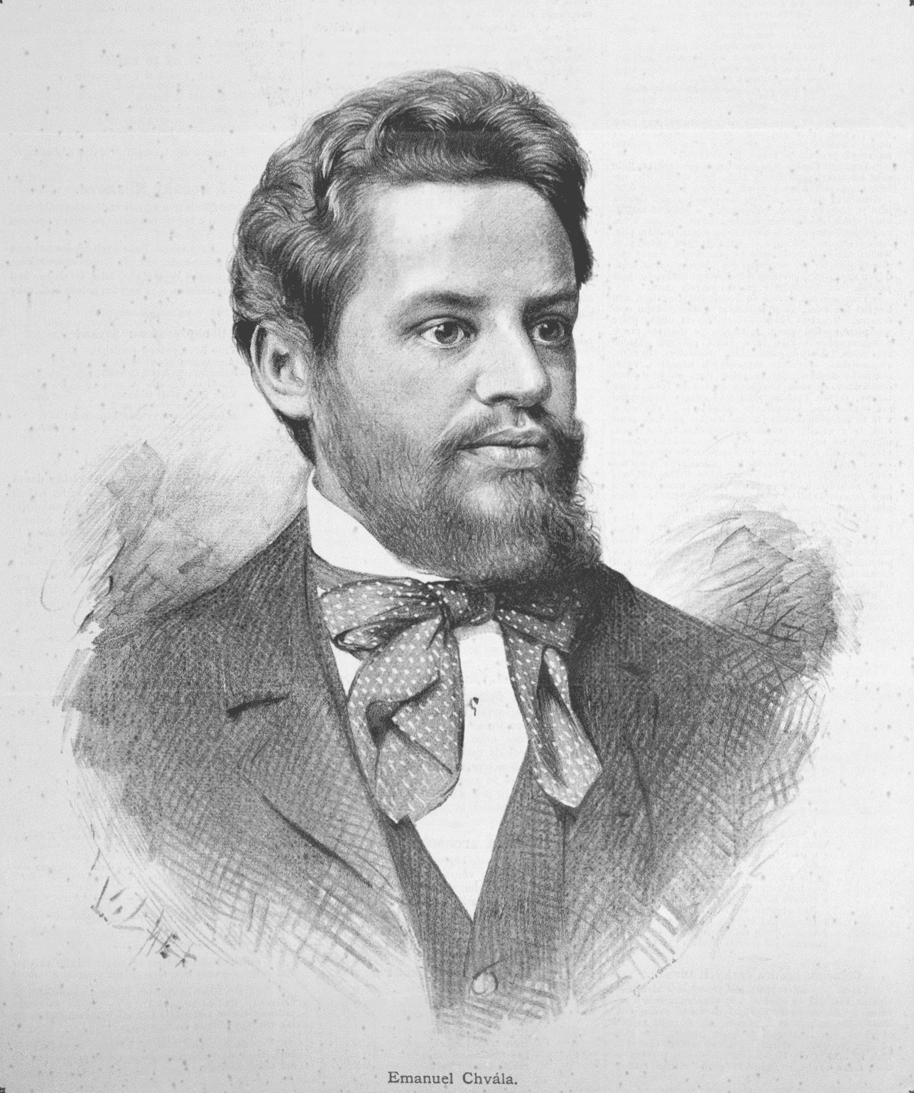 Emanuel Chvála, writer and composer